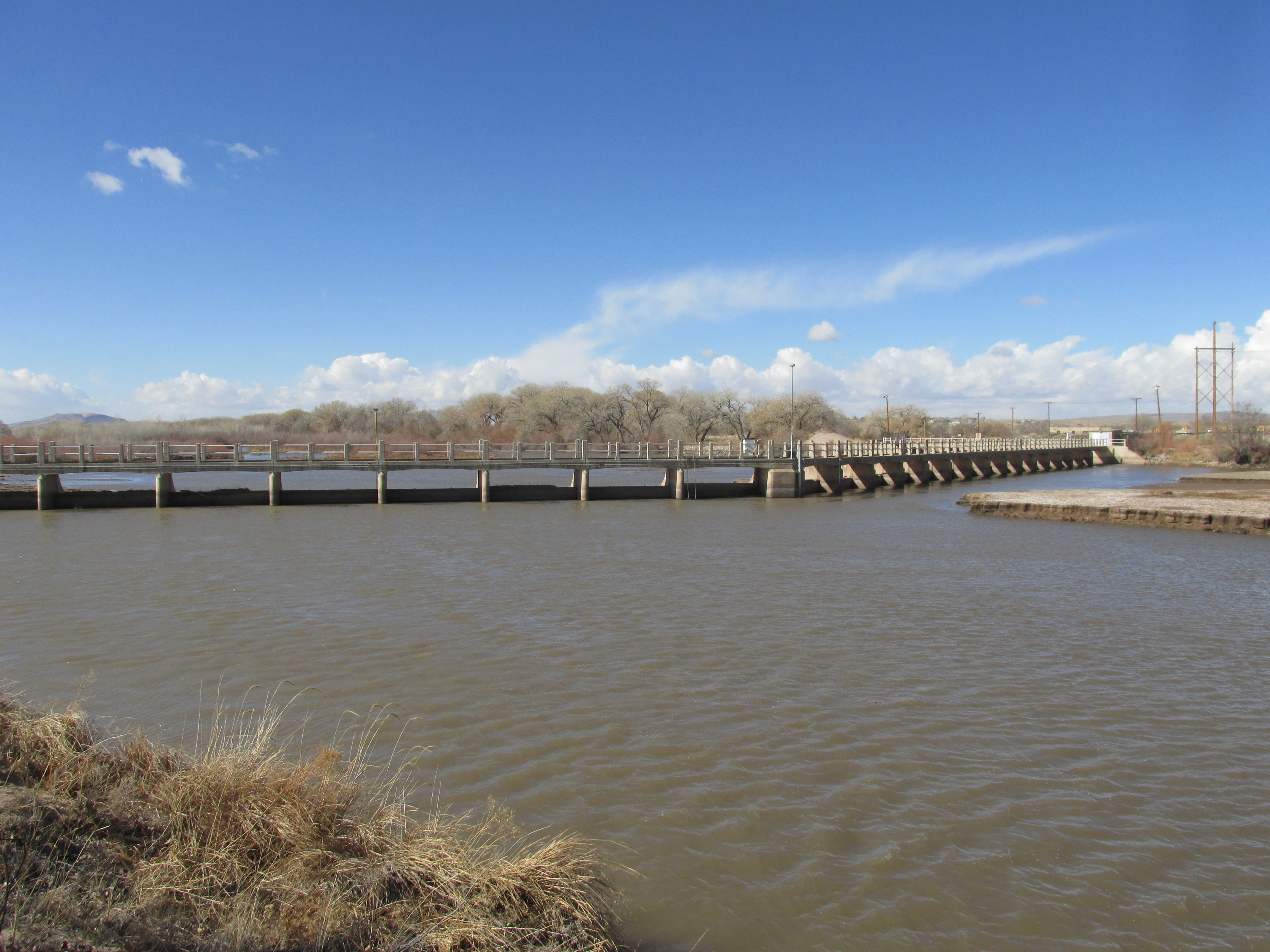 Isleta Diversion Dam, Isleta Pueblo New Mexico